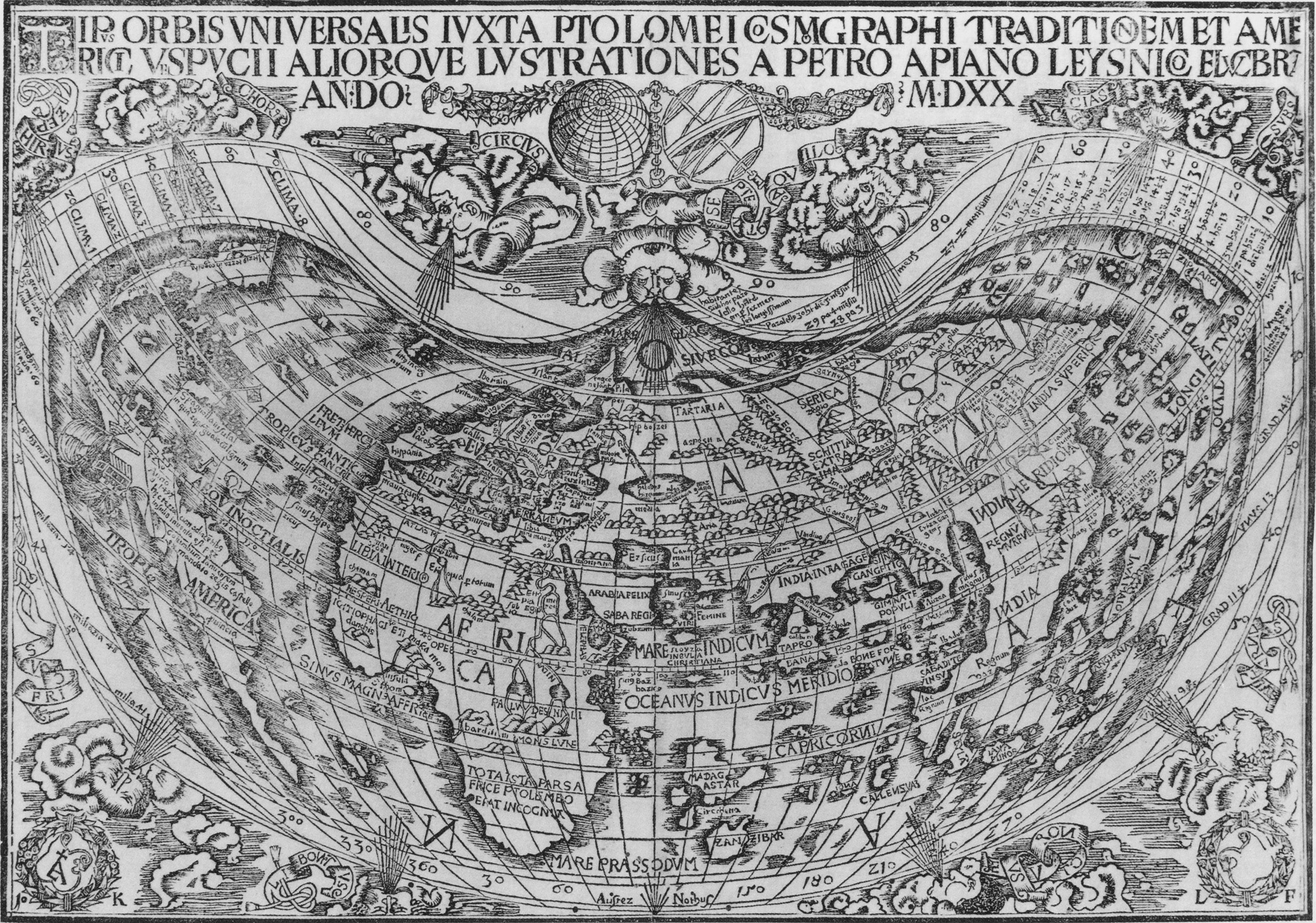 Peter Apianus world map (1520)